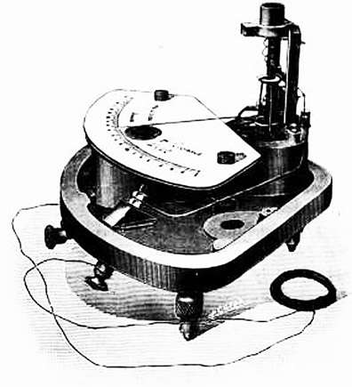 Grassot fluxmeter with cover removed